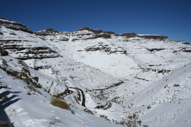 Jaco van Tonder